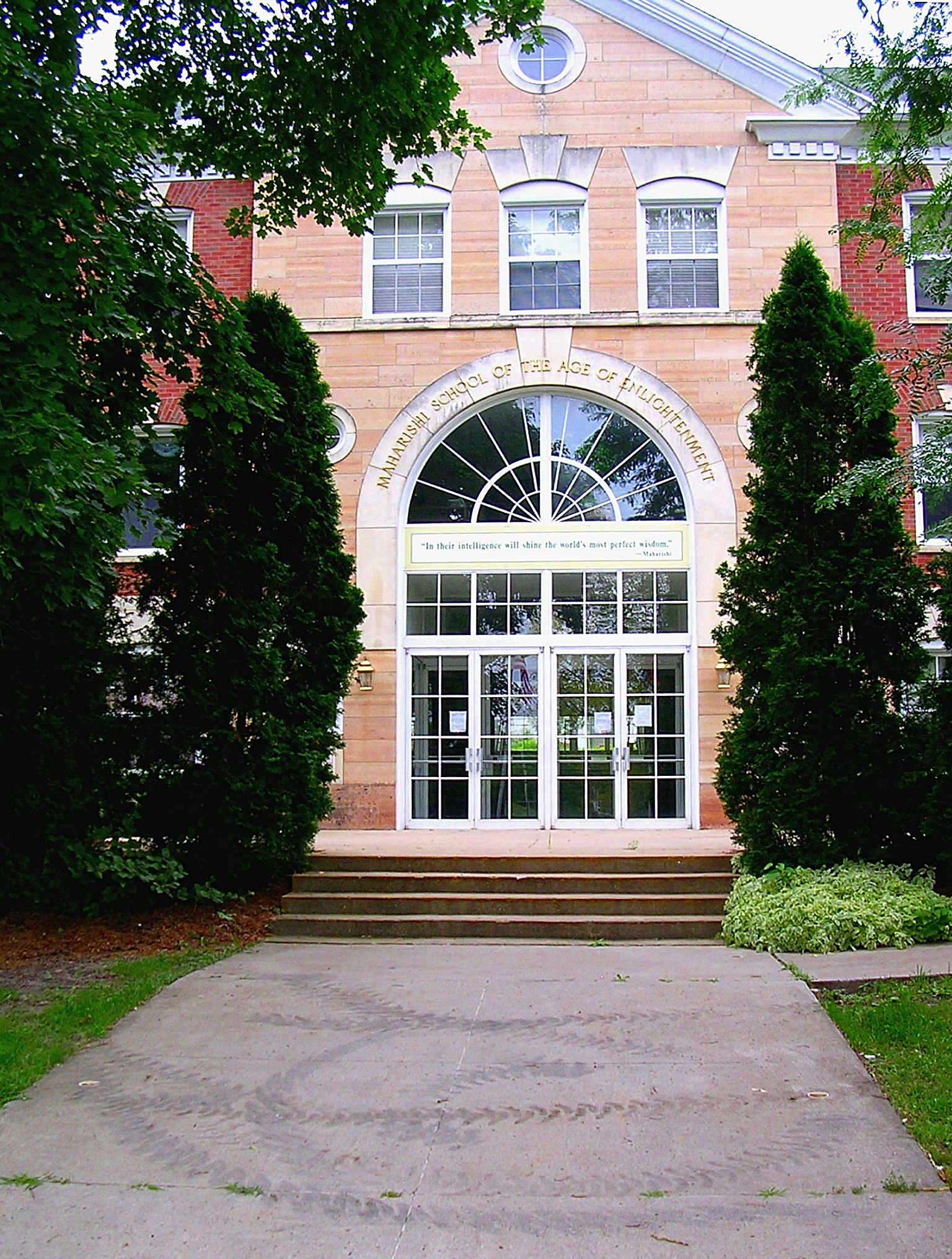 Photo of the entrance to the Maharishi School of the Age of Enlightenment in Fairfield IA. Photo taken and submitted by user: Keithbob